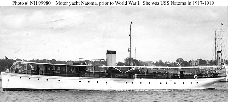 Private motorboat Natoma prior to her United States Navy service as patrol vessel USS Natoma (SP-666)